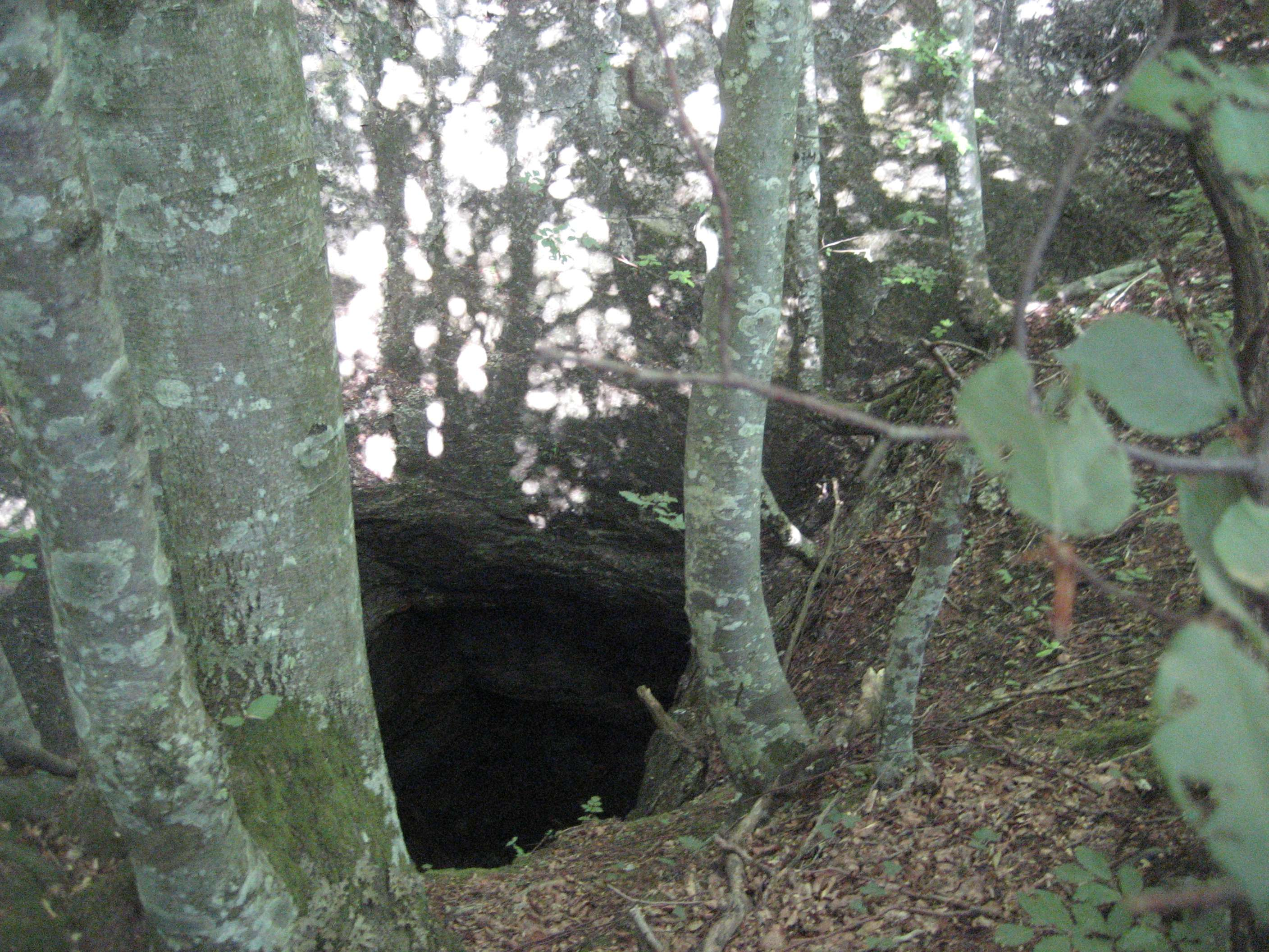 Horizontal Cave near to Lic, Croatia